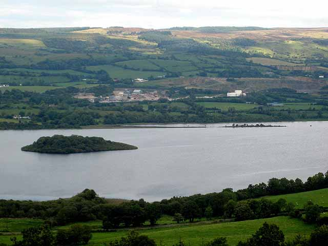 Inishee Island, Lough Macnean Lower Seen from the viewpoint below Marlbank on the Scenic Loop road.